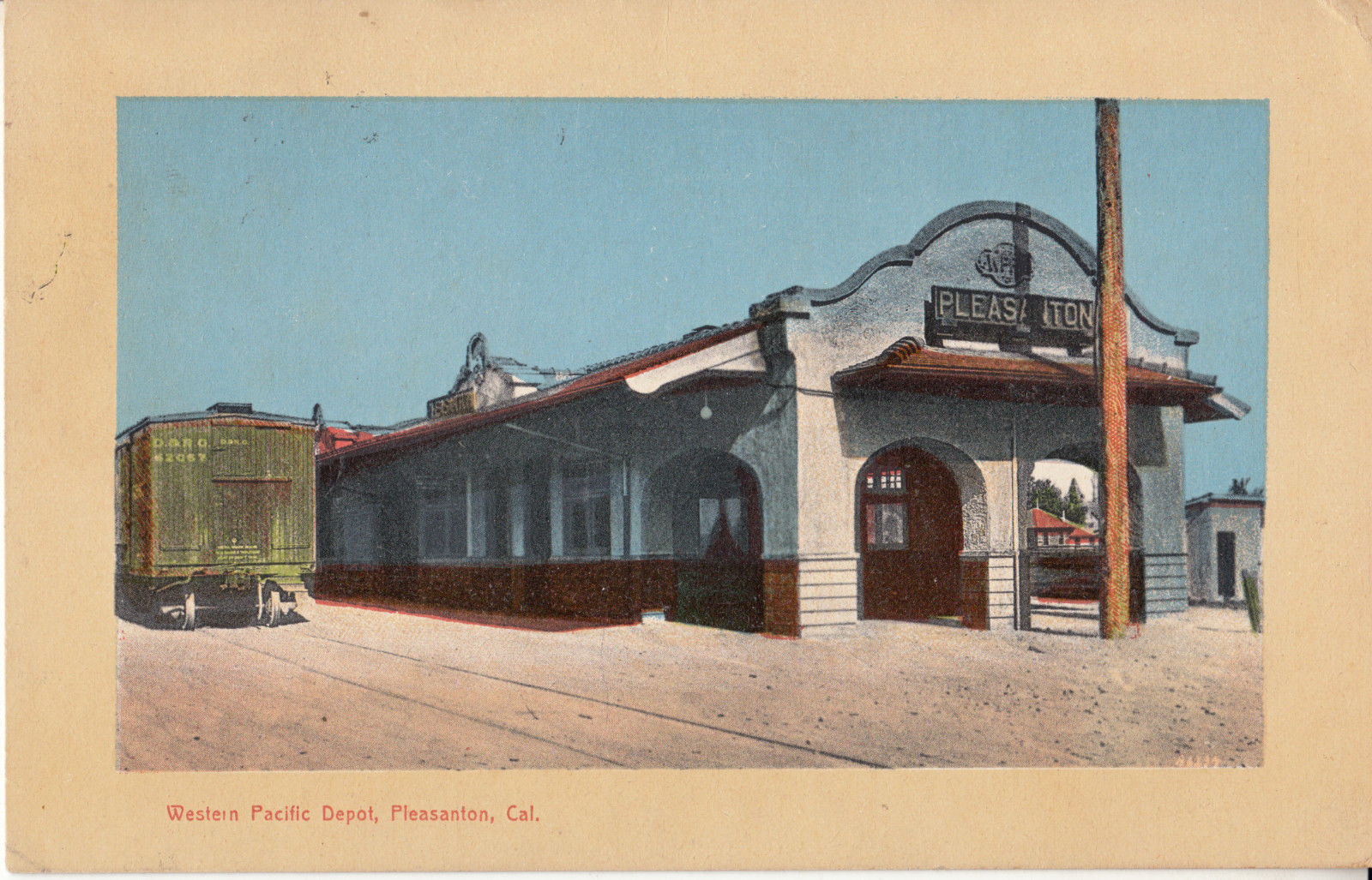 Early divided back postcard of Pleasanton station